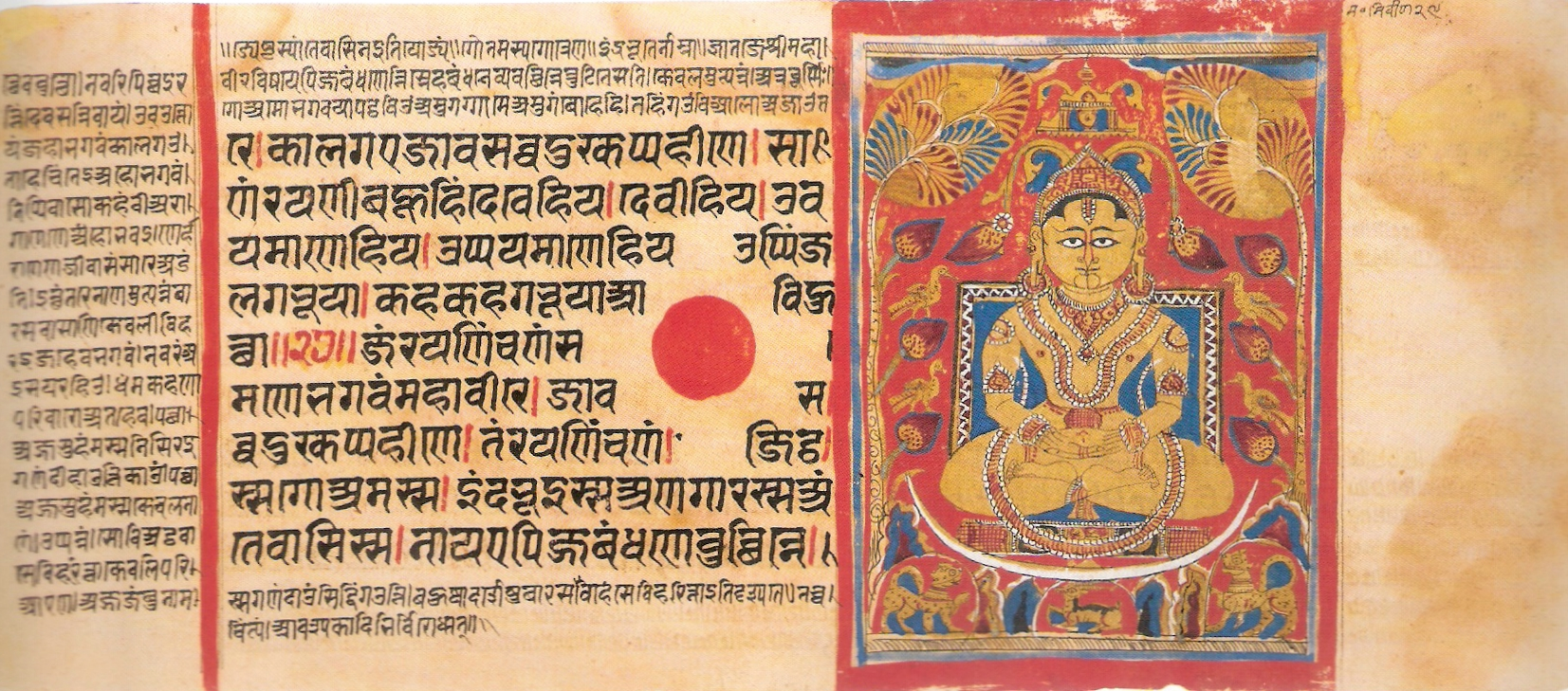 Mahavira's Nirvana or Moksa. Note the crescent shaped Siddhashila (a place where all siddhas reside after Nirvana). Folio 53r from Kalpasutra series, loose leaf manuscript, Patan, Gujarat. c. 1472.